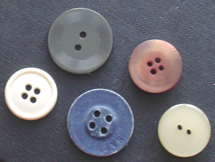 Some buttons, taken by Saintswithin